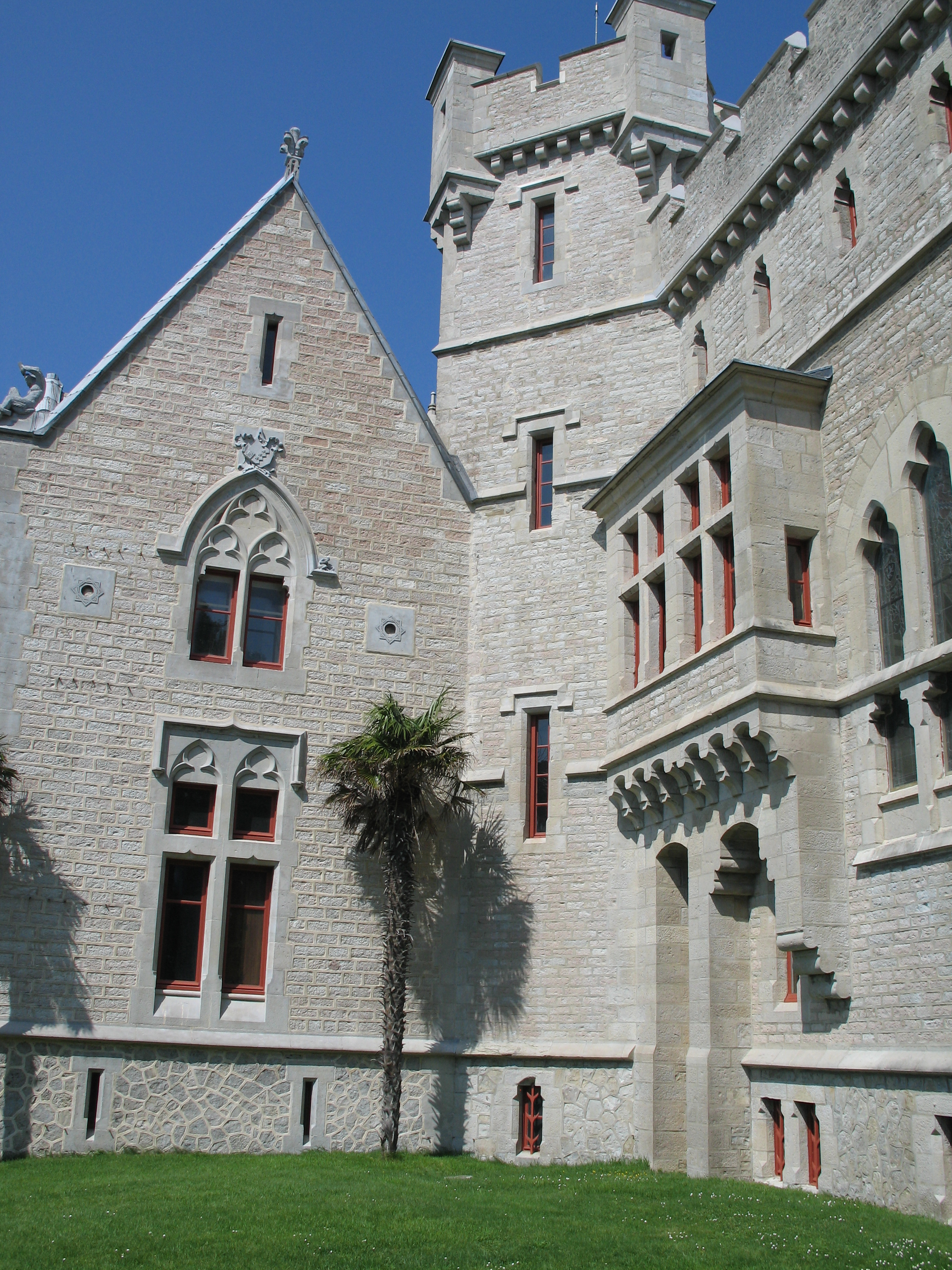 Château d'Abbadie in Hendaye, south-western aspect